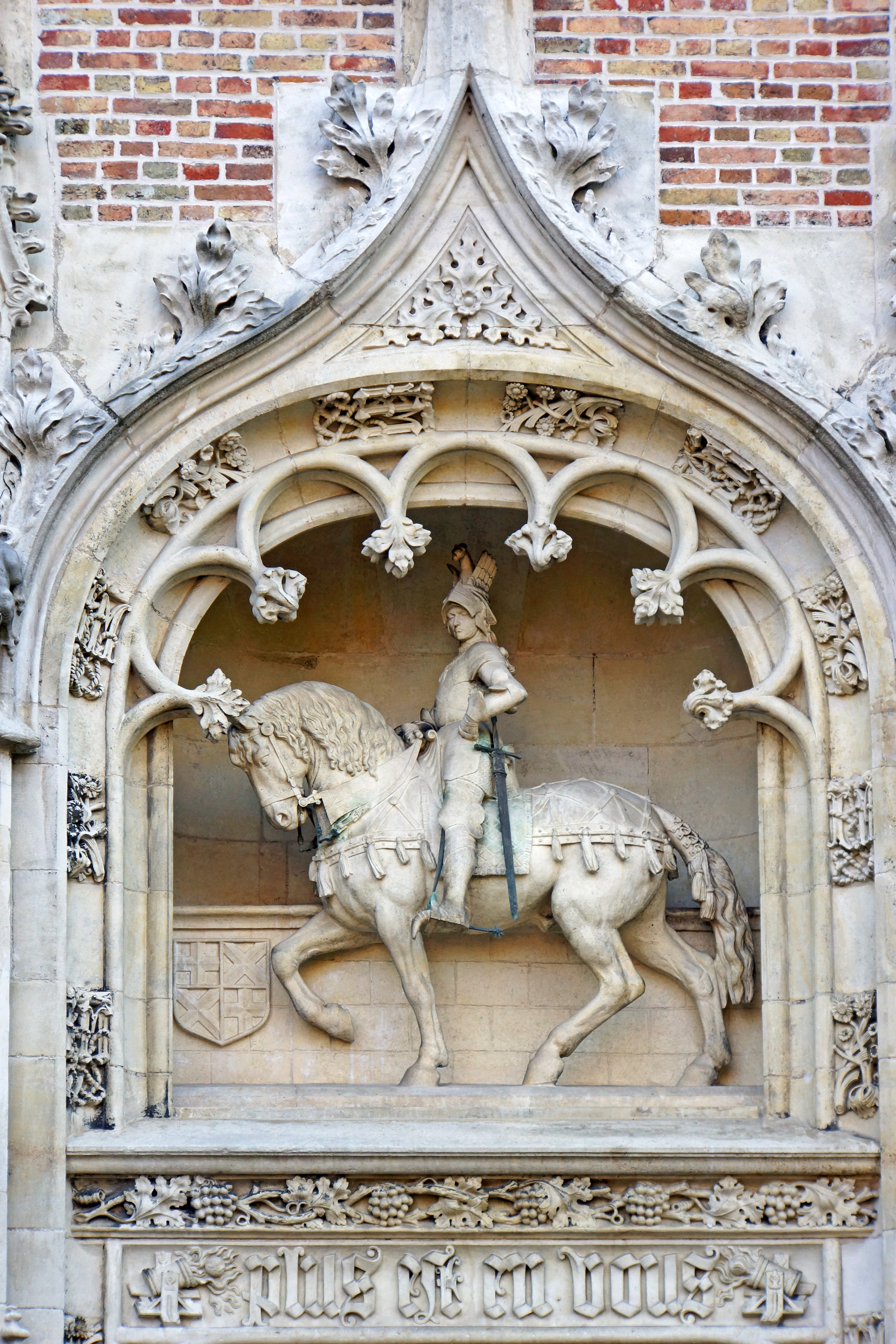 PLEASE, NO invitations or self promotions, THEY WILL BE DELETED. My photos are FREE to use, just give me credit and it would be nice if you let me know, thanks. The most famous member of this family is Lodewijk van Gruuthuse, diplomat and art lover. His equestrian statue can be seen above the lower front facade of the Gruuthuse palace. Under the statue is his personal motto 'Plus est en Vous' (there is more in you). The motto is in French, the language of European medieval nobility. This part was built during the lifetime of Lodewijk, namely in 1465. In 1628 the former palace of Gruuthuse became a pawn shop. After a complete renovation (partially in neo-gothic style) in 1883 to 1898 the entire house became the archeological city museum Gruuthuse Museum is the largest complex of museums in Bruges and is located in the house which belonged to Van Gruuthuse Brugghe-van der Aa. It is a unique mansion, built in bourgeois Gothic style, contains a varied collection of carpets, coins, furniture, antiques, glass, weapons, silver, household objects, ceramics and musical and measuring instruments. It was formerly the Palace of the Lords of Gruuthuse.